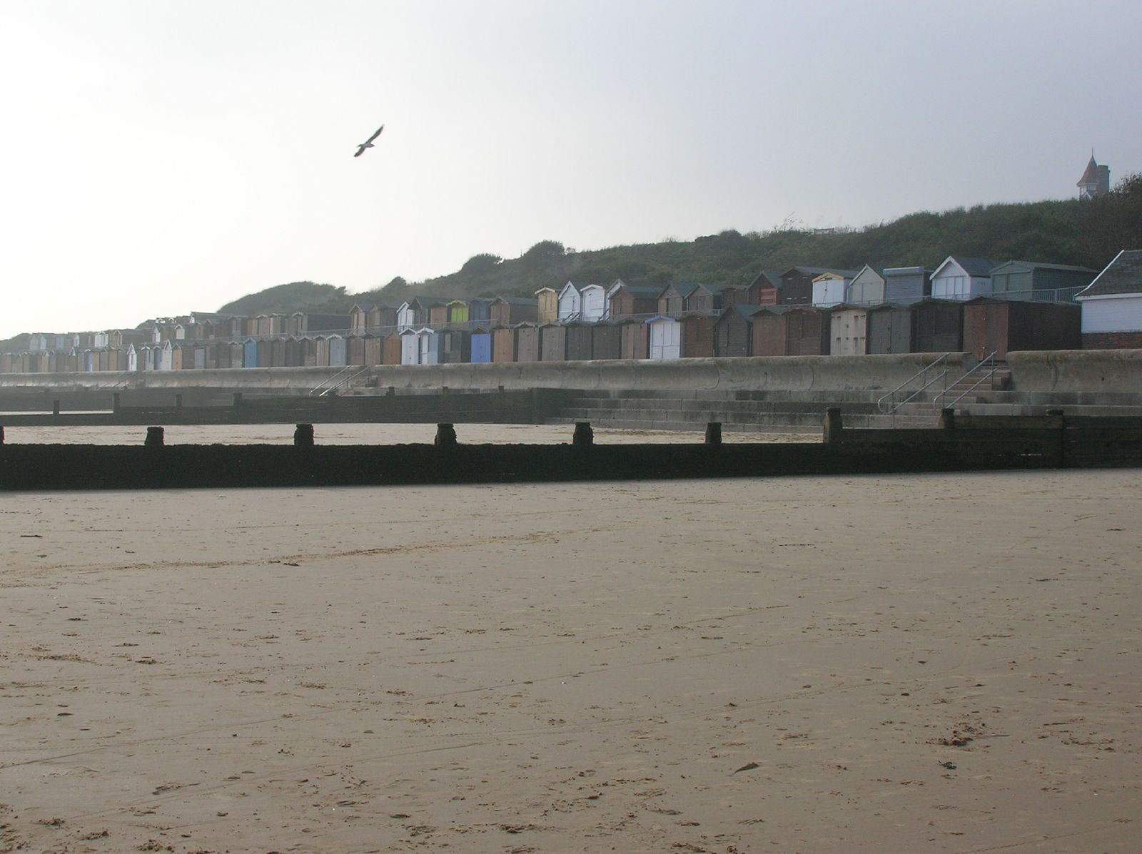 The coast at Frinton-on-Sea, in Essex, England.